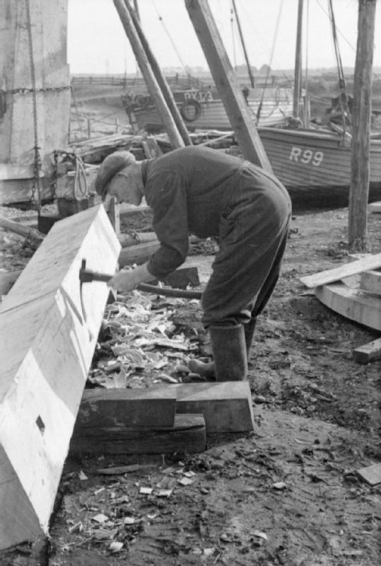 Rye Shipyard- the Construction of Motor Fishing Vessels, Rye, Sussex, England, UK, 1944 Shipwright Herbert Page from Hastings uses an adze to trim and shape a large timber destined for use in the construction of a Motor Fishing Vessel at Rye shipyard, Sussex. The timber has been cut from specially selected trees, which have been allowed to weather in the shipyard before sawing and shaping.